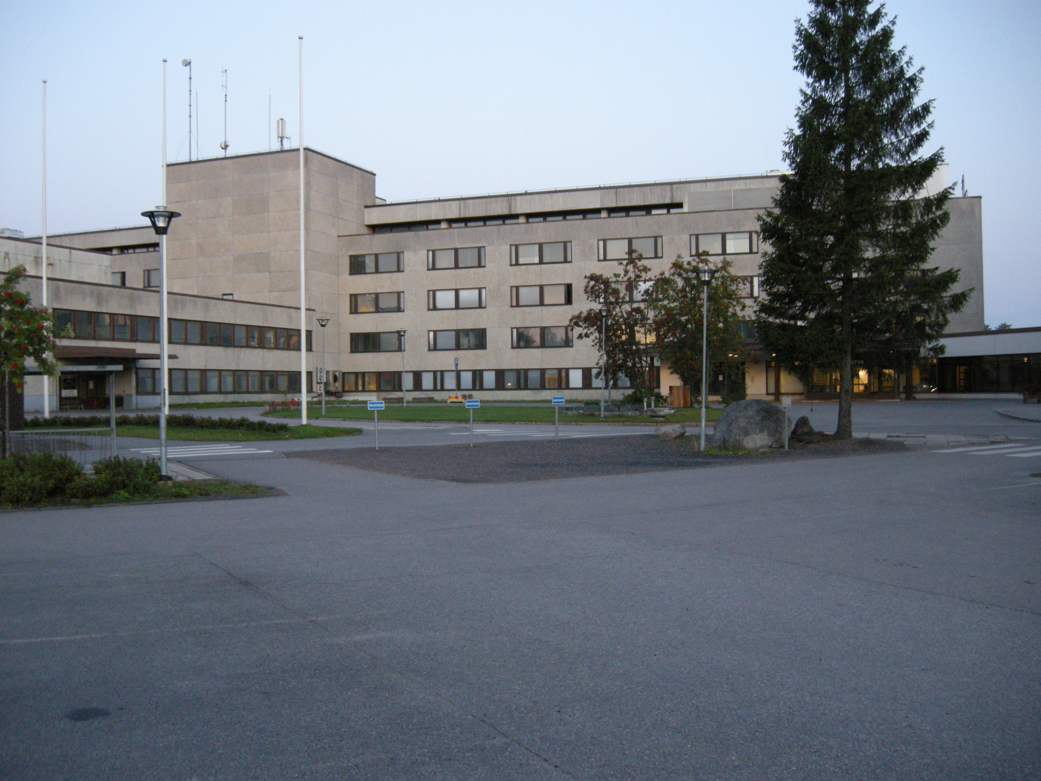 Hyvinkää hospital in Hyvinkää, Finland.